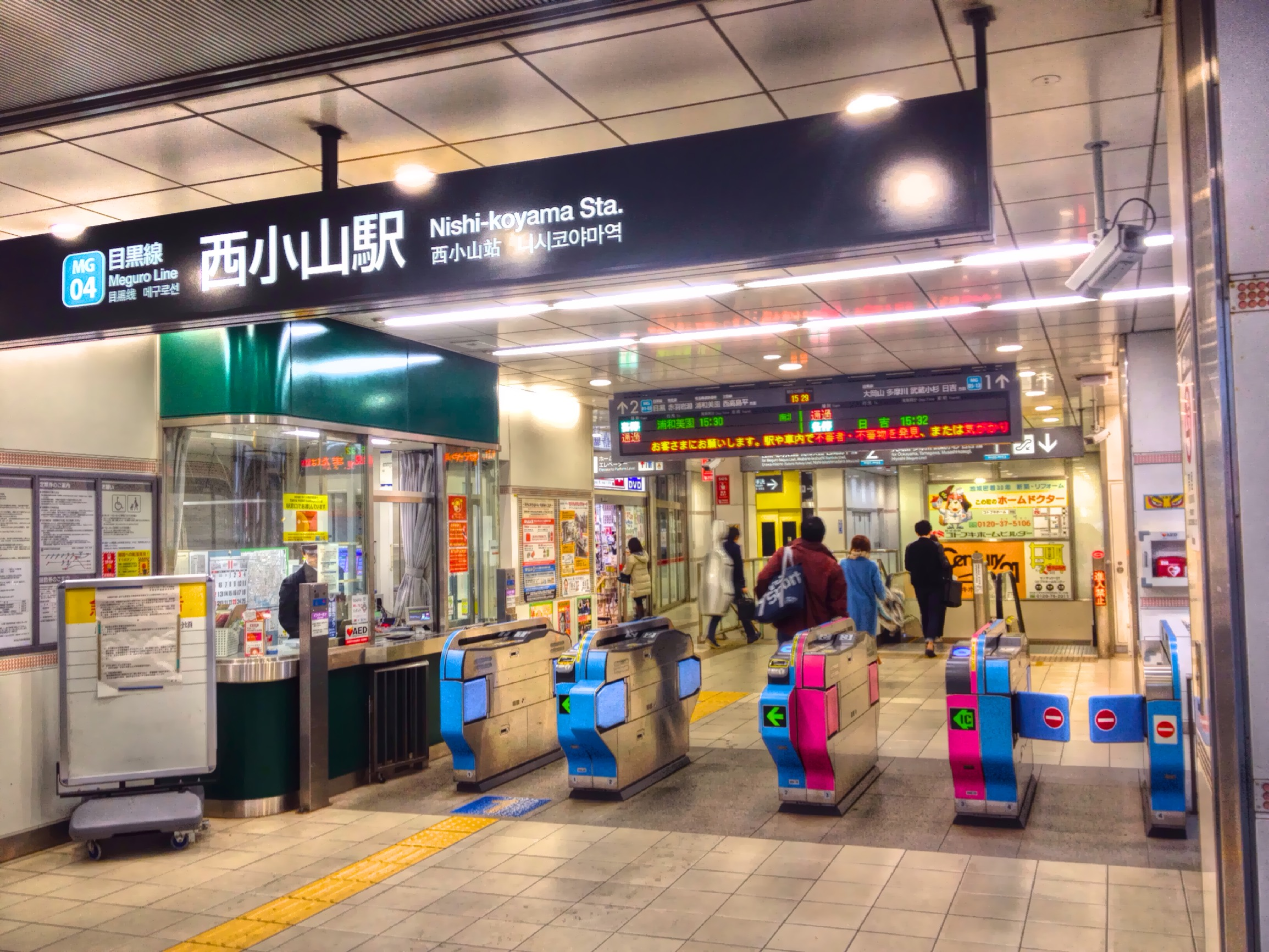 西小山駅の改札 (Nishi-koyama station ticket gates)